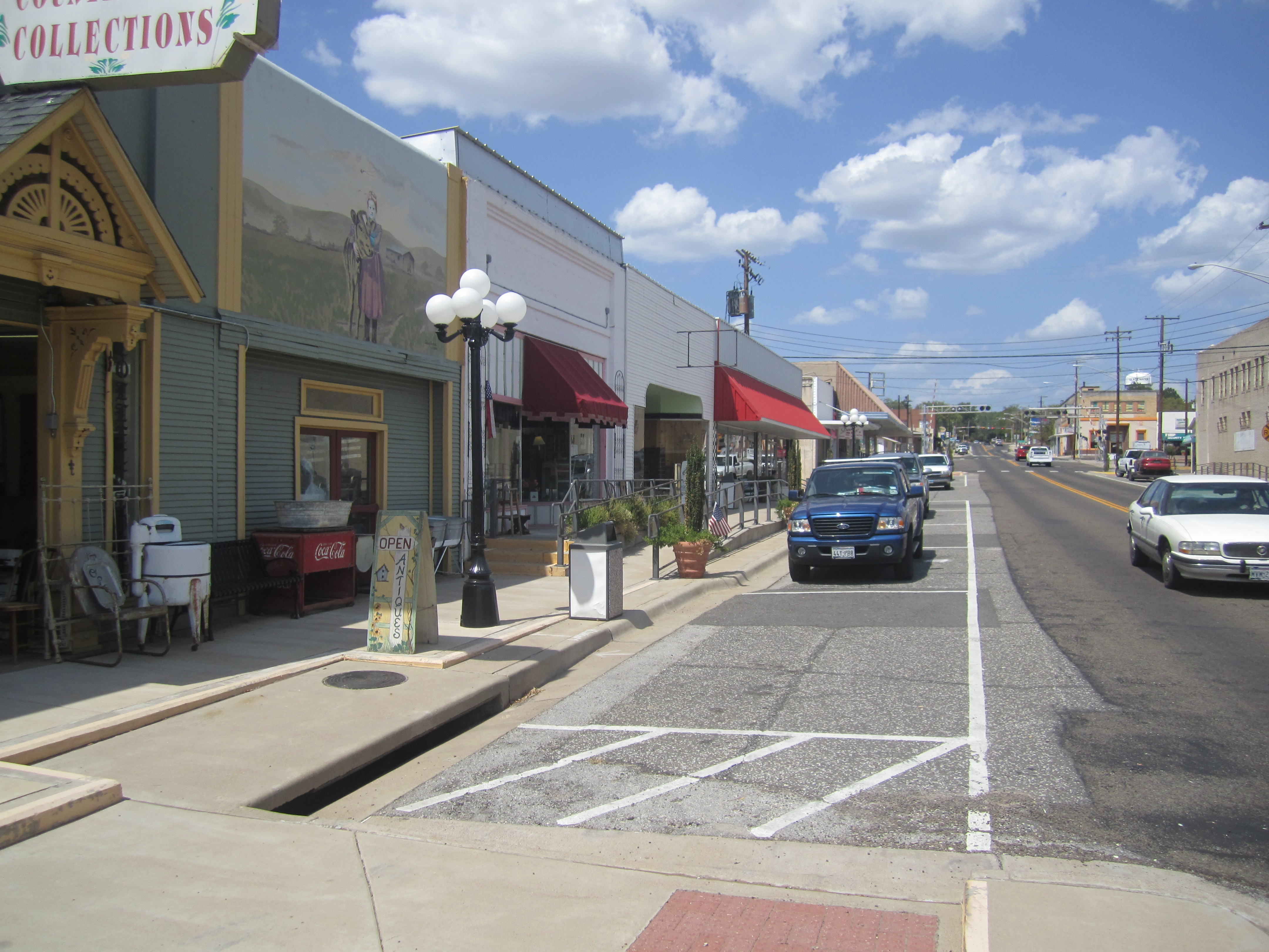 I took photo of antique shops in Gladwater, TX, with Canon camera.